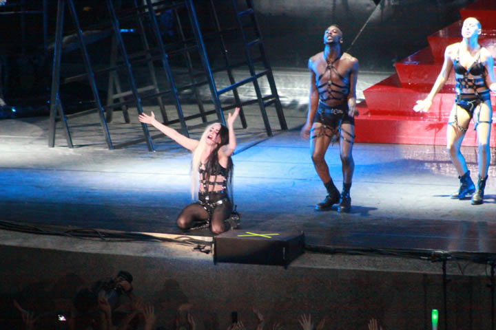 Lady Gaga performing "Judas" on a 2011 promotional concert in Taichung, Taiwan.